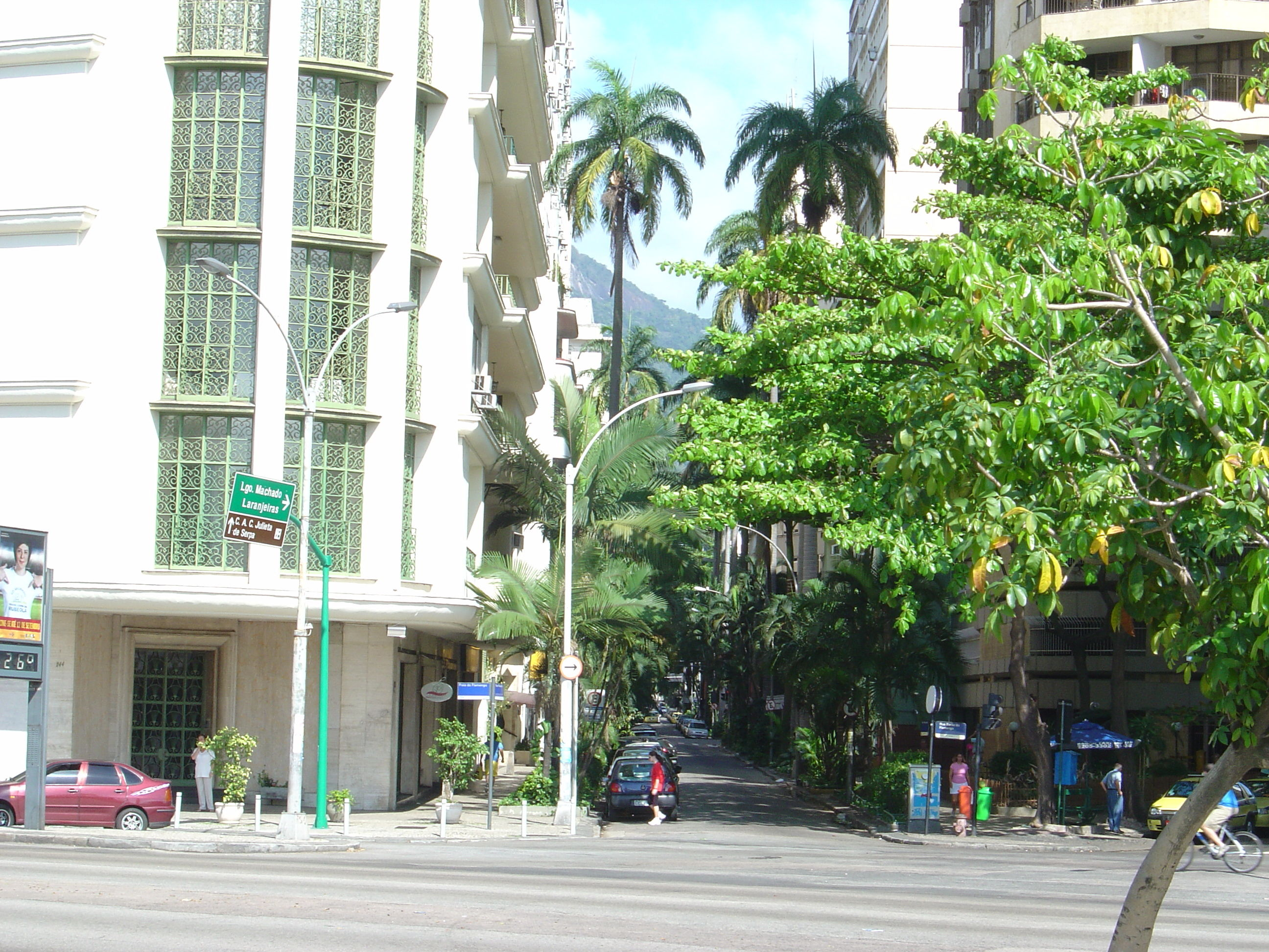 Paissandú Street, Rio de Janeiro. Picture taken from Praia do Flamengo.